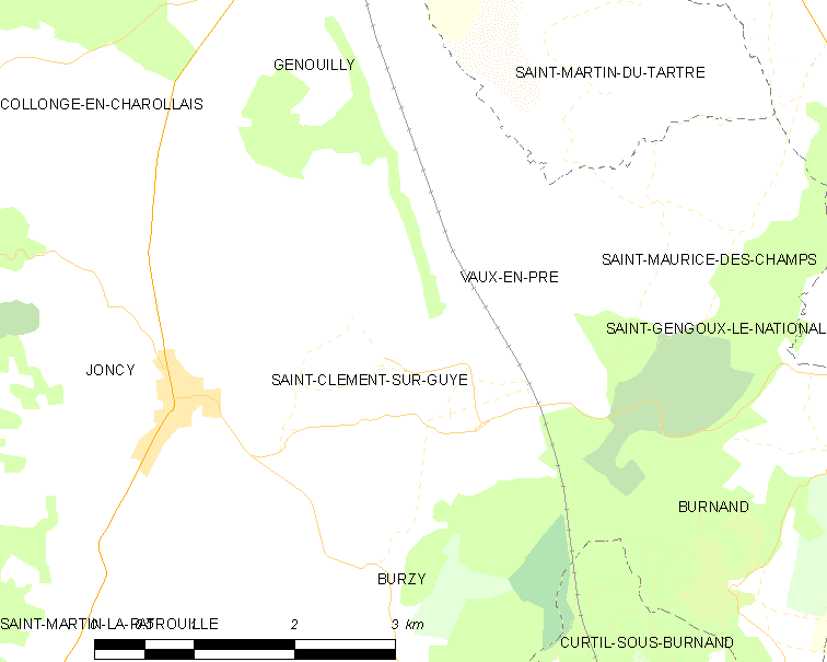 Map of French municipality